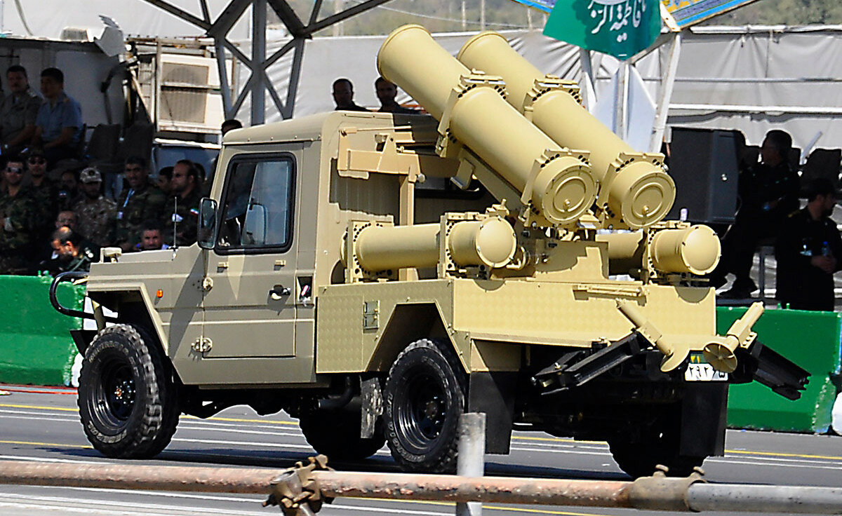 Kaviran tactical vehicle with Falaq-1 and Falaq-2 launch tubes on parade in Tehran. (The big tubes are Falaq-2, the small ones on the sides are Falaq-1)